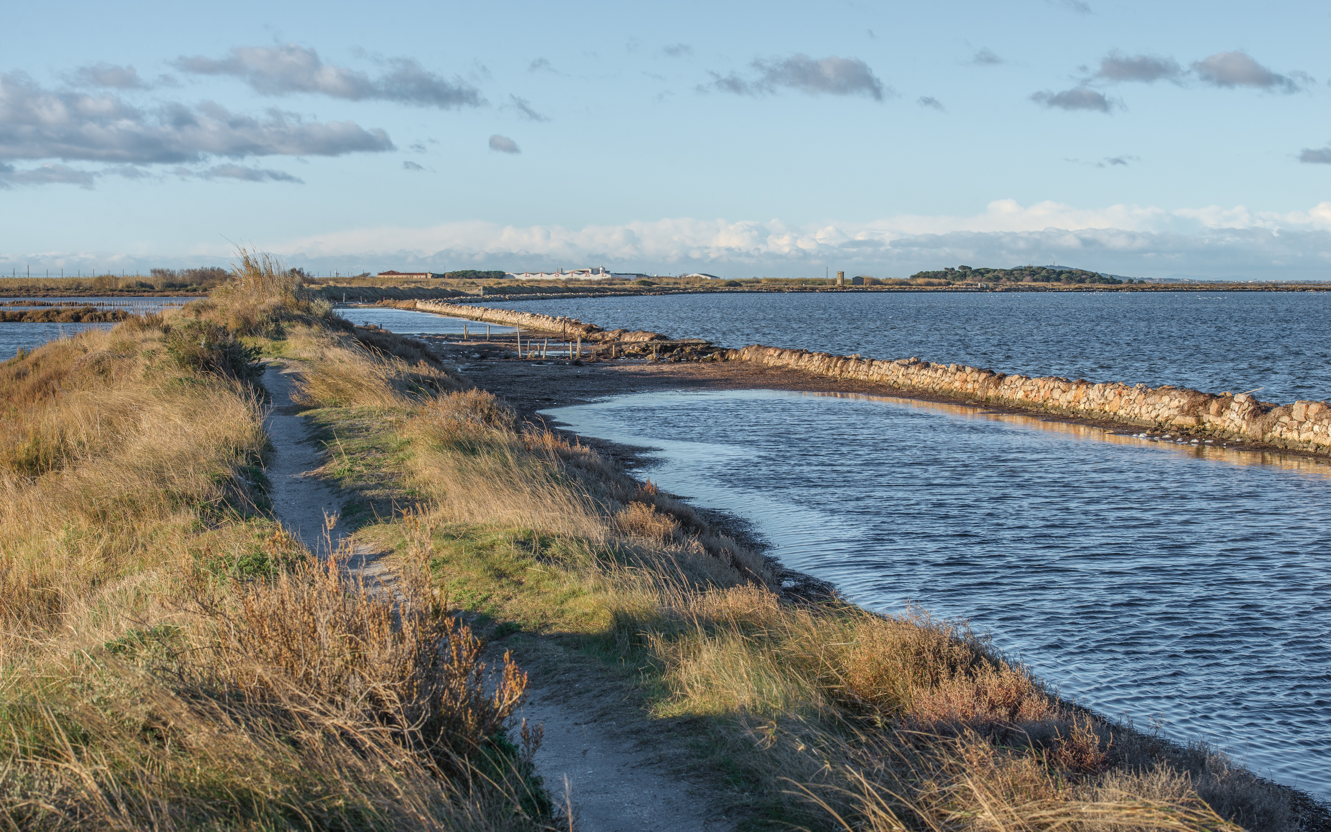 A trail between the Étang de Thau on the right and the former salt evaporation ponds ("salins de Villeroy") on the left. In the background the "Château de Villeroy" (a wine-producing farm of the Domaines de Listel). Today in ruins the wall on the right (cairel in french) was built in the middle of the XXth century to protect the salt marshes of the level changes of the pond. The place is protected by the Conservatoire du littoral and is named "Lido de Thau". Sète, Hérault, France.